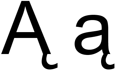 A with ogonek U+0104 (Ą) and, to its right, a with ogonek U+0105 (ą)